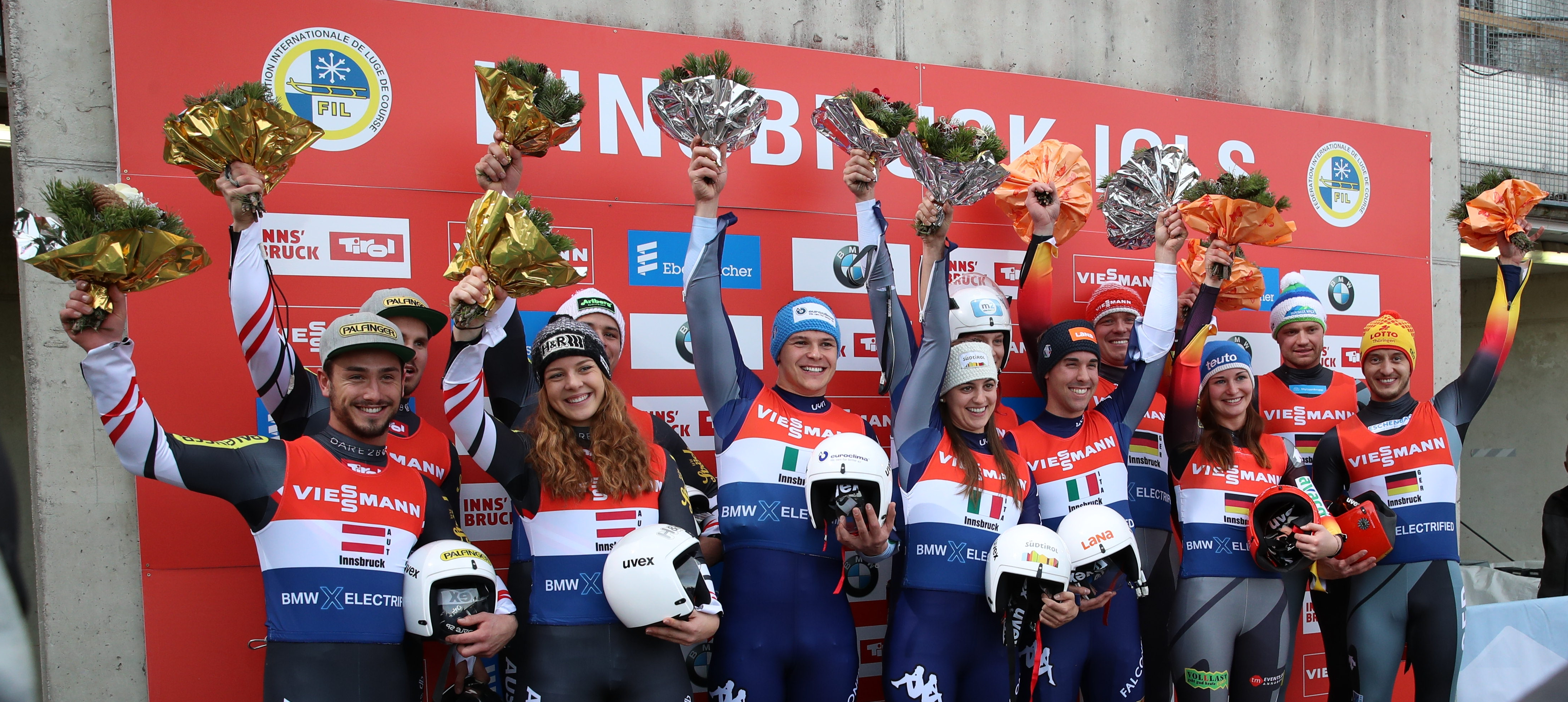 Team Relay World Cup race at the 2019/20 Luge World Cup in Innsbruck-Igls